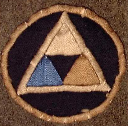 The shoulder sleeve insignia utilized by the 39th Infantry Division during World War I. The Greek symbols for Delta were utilized to represent the Division as the "Delta" Division because its troops were drawn from the states that make up the Mississippi Delta, Louisiana, Mississippi and Arkansas. Several sources state that this patch was not approved by the American Expeditionary Forces Commander, General Pershing, but the patch is clearly visible in several photographs of division members from the time period.